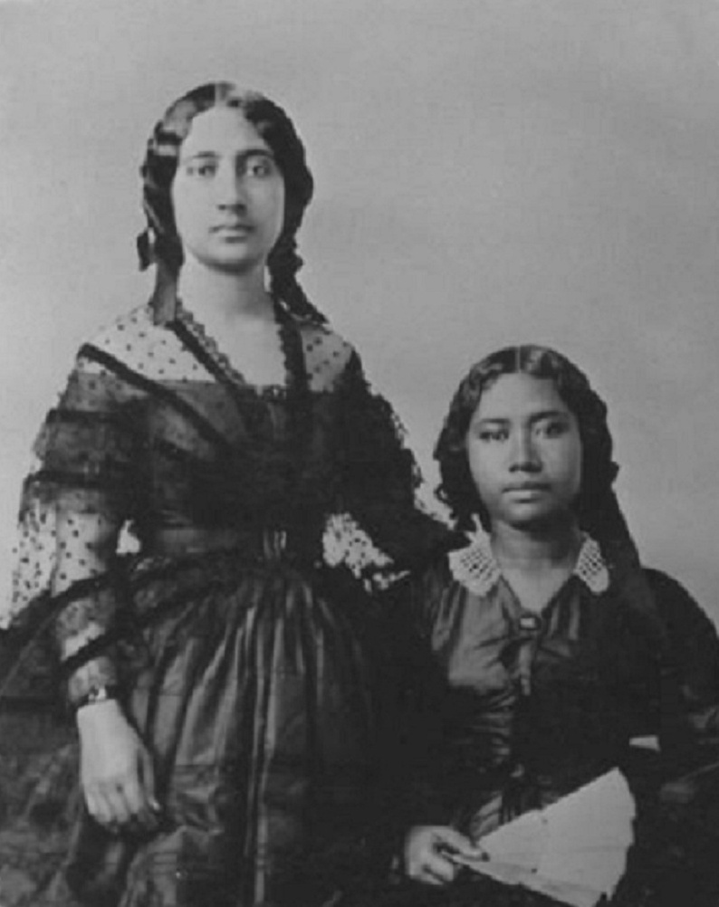 Photo of Bernice Pauahi Paki and Lydia Kamakaeha Paki (Liliuokalani) without frame